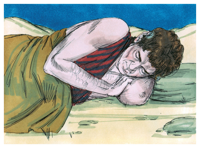 Biblical illustration of Book of Genesis Chapter 28